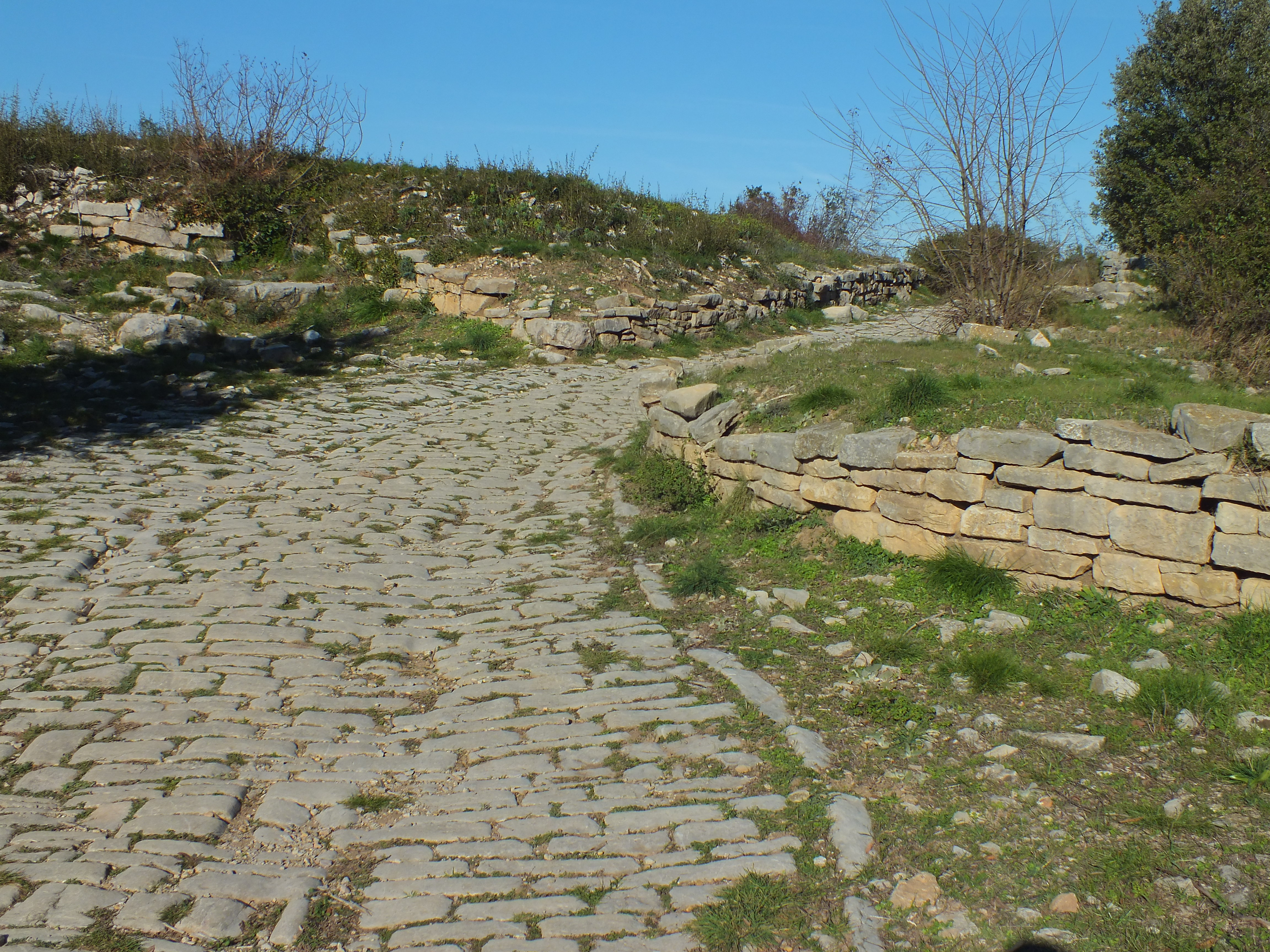 Ambrussum is a Roman archaeological site in Villetelle, near Lunel, Hérault, the Via Domitia which led over the Pont Ambroix, ran at the foot of the settlement. Leading from it is a paved road with visible traces of Roman cart tracks that runs from the south gate to the east gate.